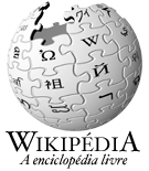 Logo of the Portuguese Wikipedia